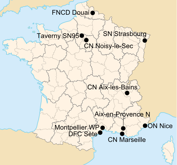 Map locating water polo clubs playing the Elite France Championship season 2009-2010.